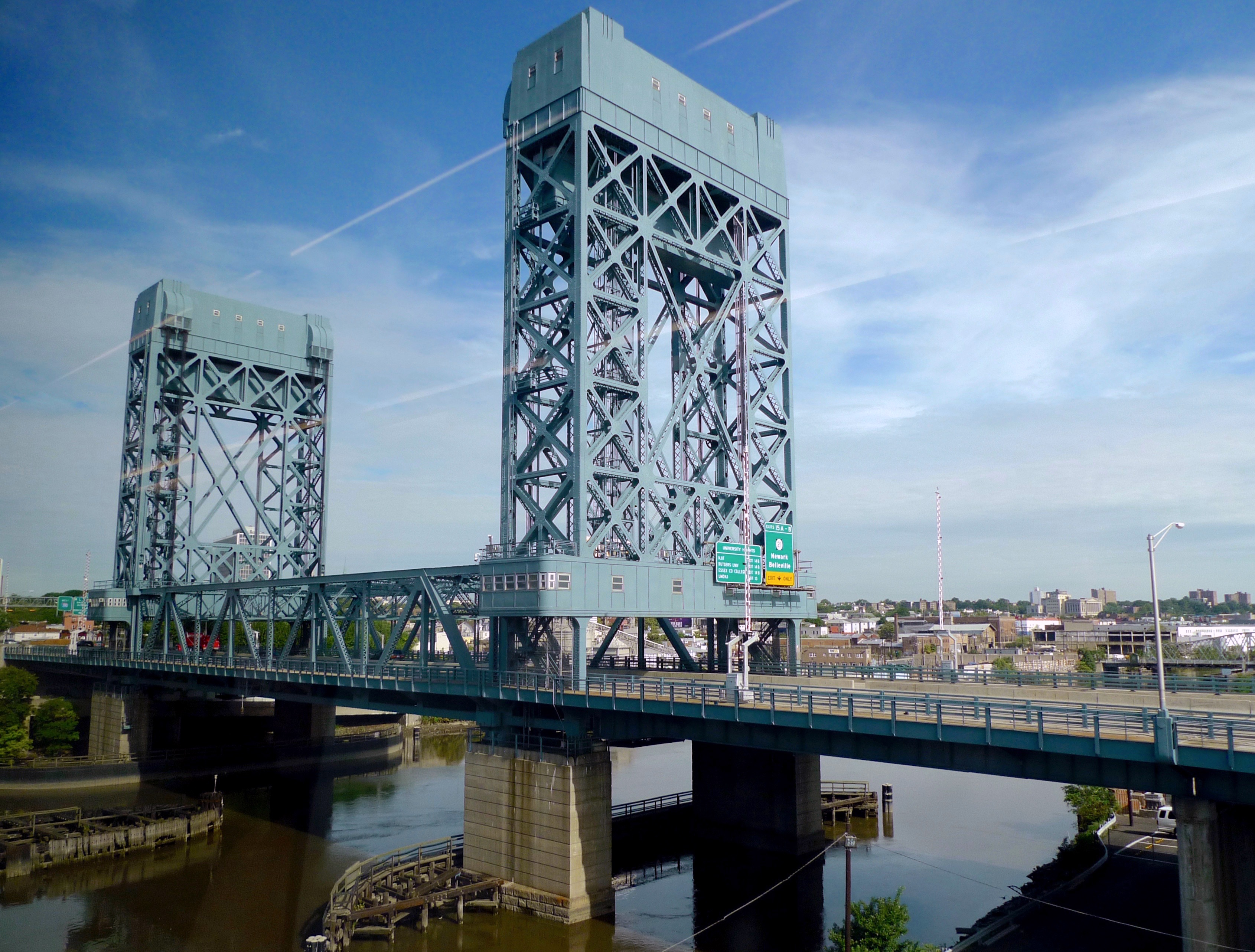 The William A. Stickel Memorial Bridge, a 1949 vertical-lift bridge carrying I-280 across the Passaic River between Newark and East Newark, New Jersey, viewed from a train on the parallel Newark Drawbridge (or Morristown Line Bridge).